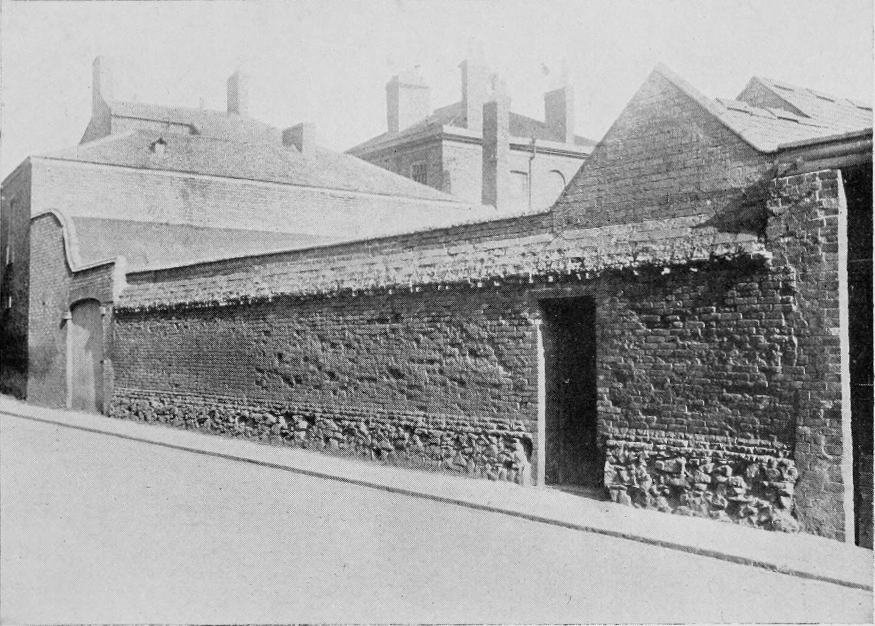 Section of Medieval Wall (Demolished since 1920) that formed part of the northern boundary of the Medieval Greyfriars Priory in Leicester, taken from Peacock Lane, looking east.